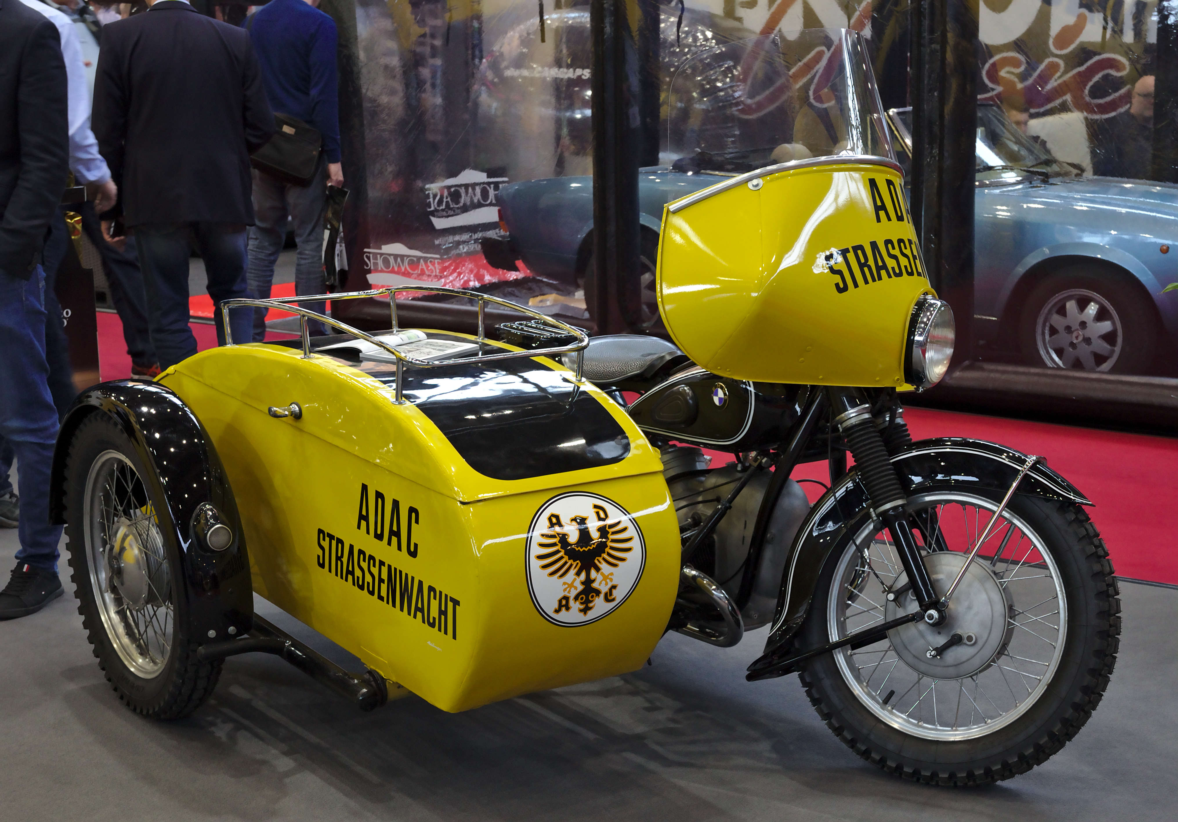 ADAC motorbike at Retro Classics 2018